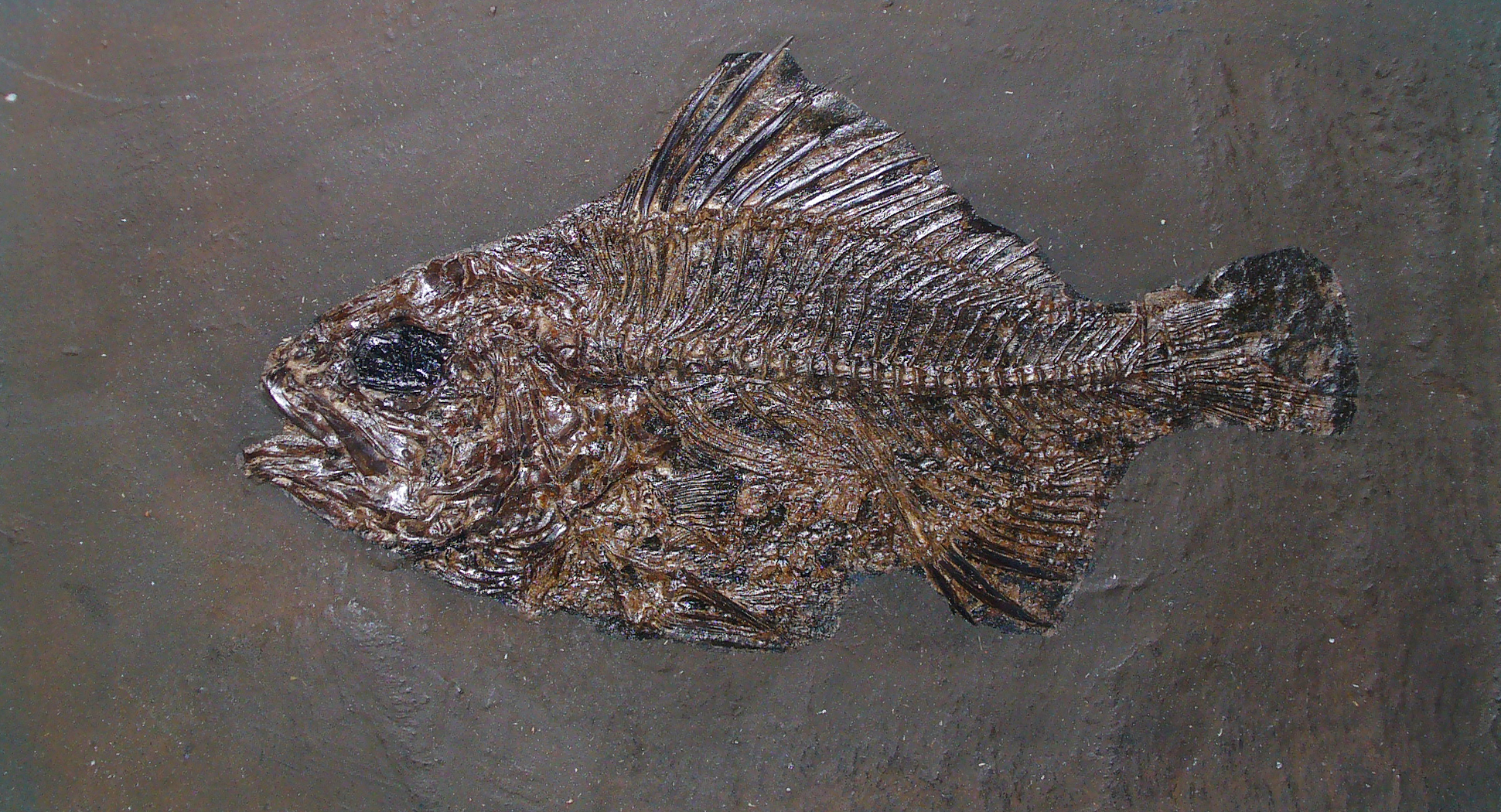 Amphiperca multiformis, Serranidae; Eocene, Messel, Germany; Staatliches Museum für Naturkunde Karlsruhe, Germany.